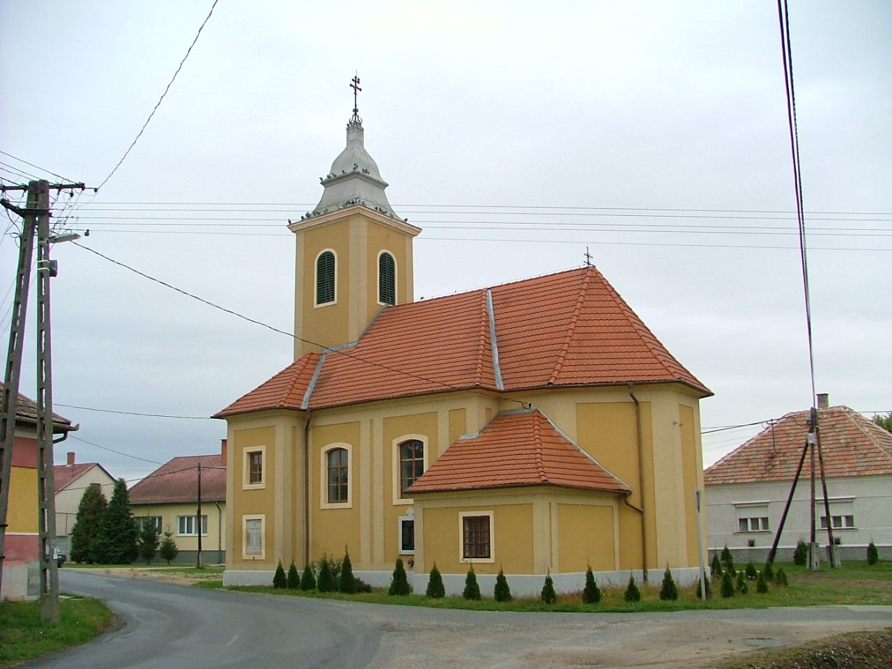 The Szentháromság (Holy Trinity) roman catholic church in Hövej This is a photo of a monument in Hungary, Identifier: 4460